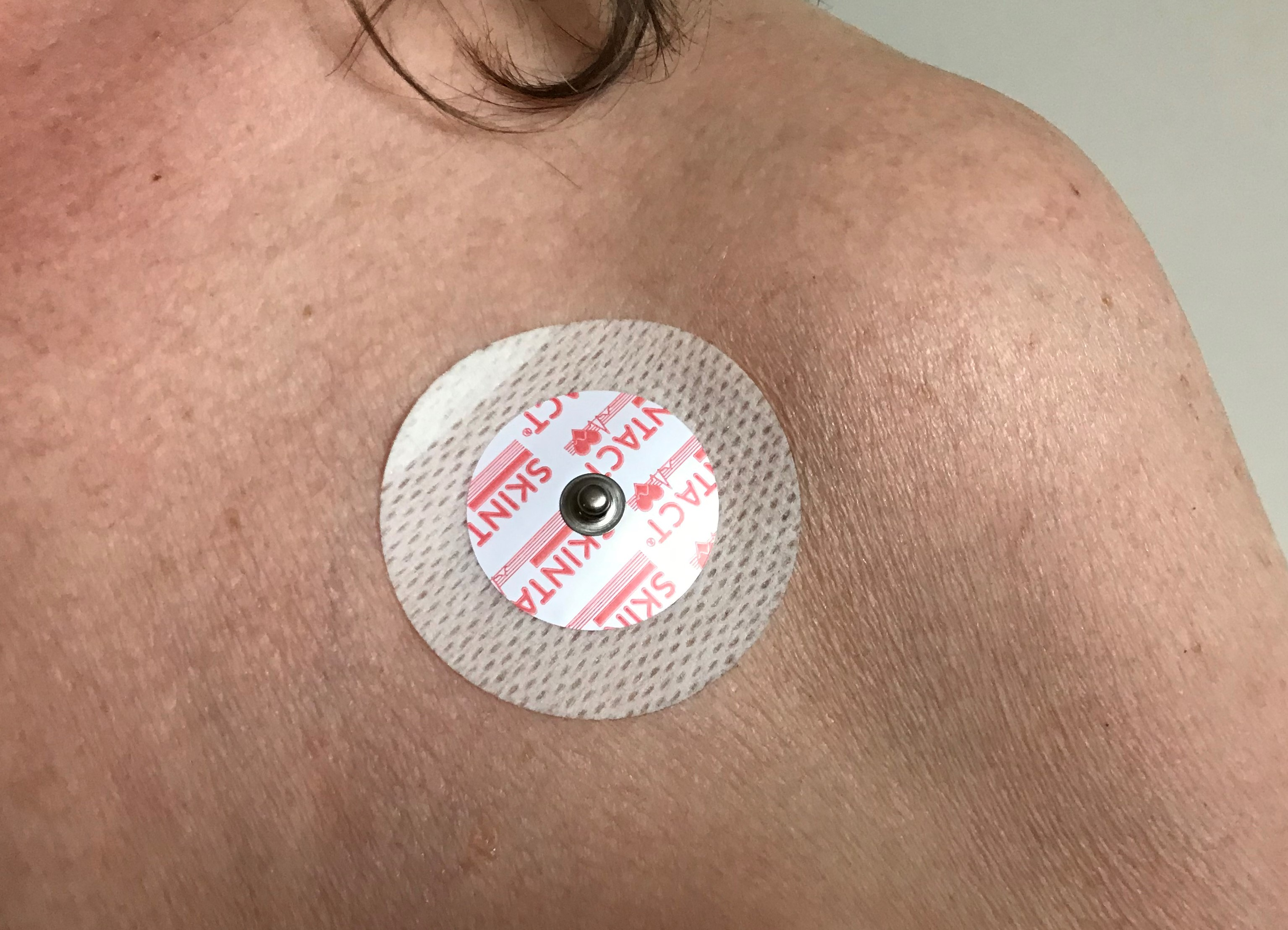 Skintact-elektrod